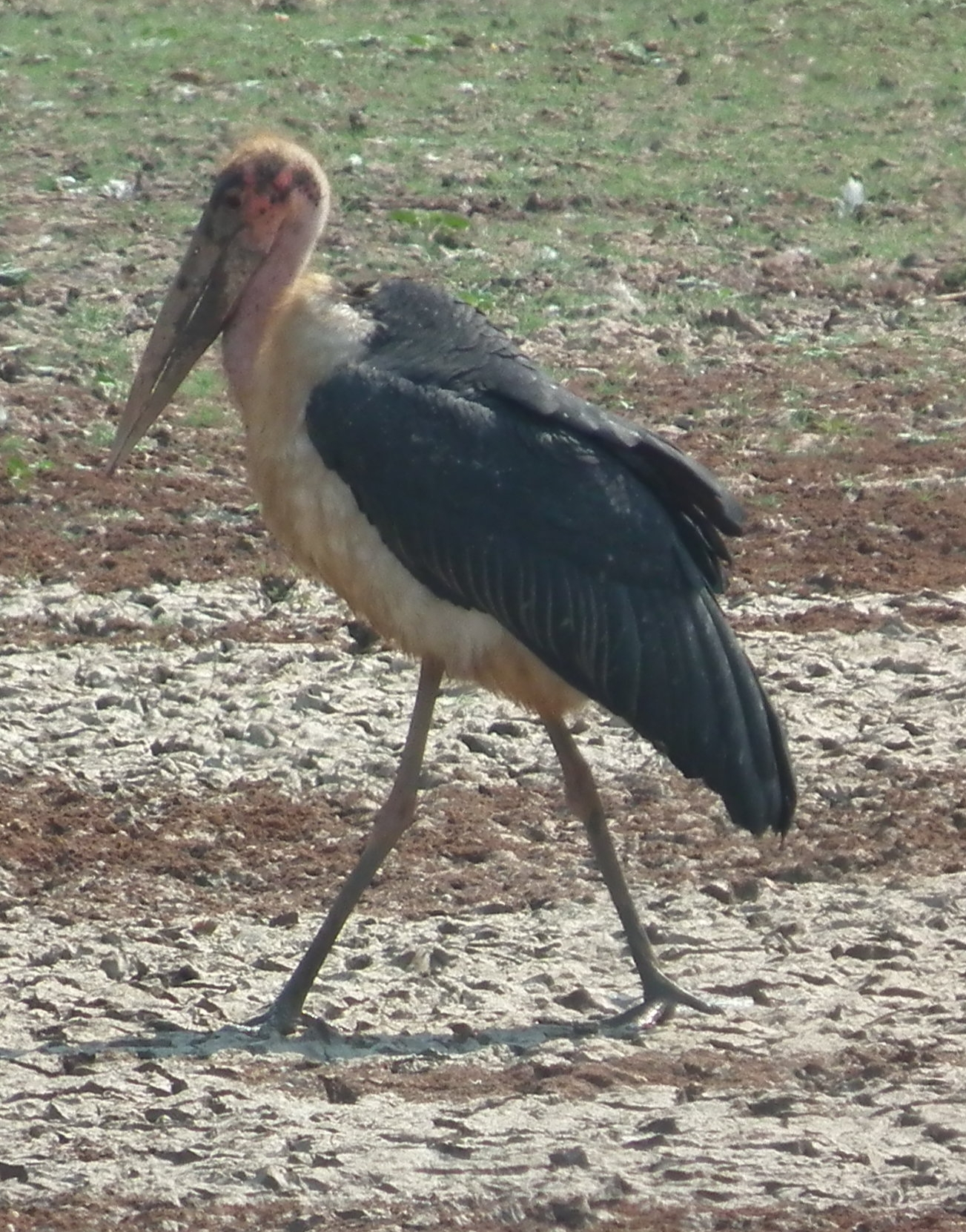 Marabou Stork in South Luangwa NP, Zambia